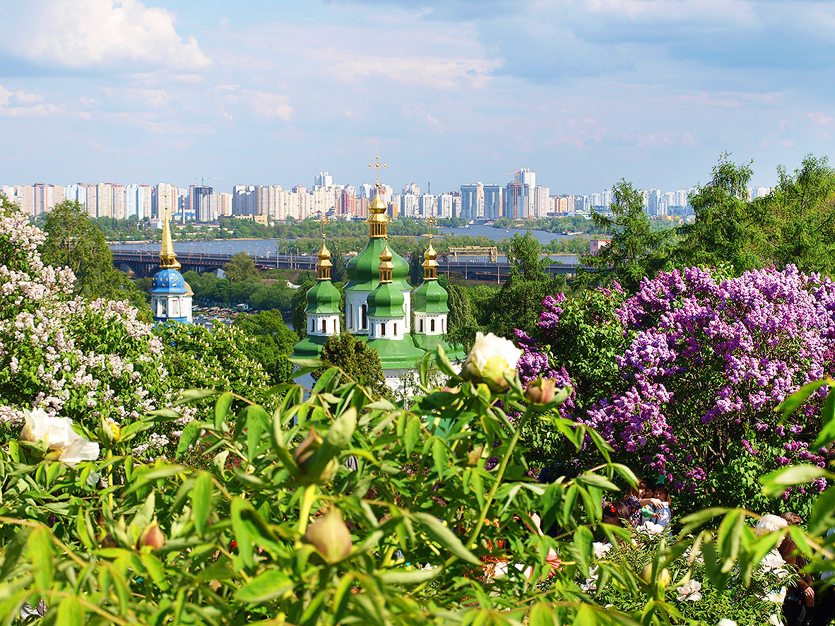 Lilacs Gardens. National M. M. Grishko botanical garden in Kyiv (Ukraine). Vydubychi Monastery